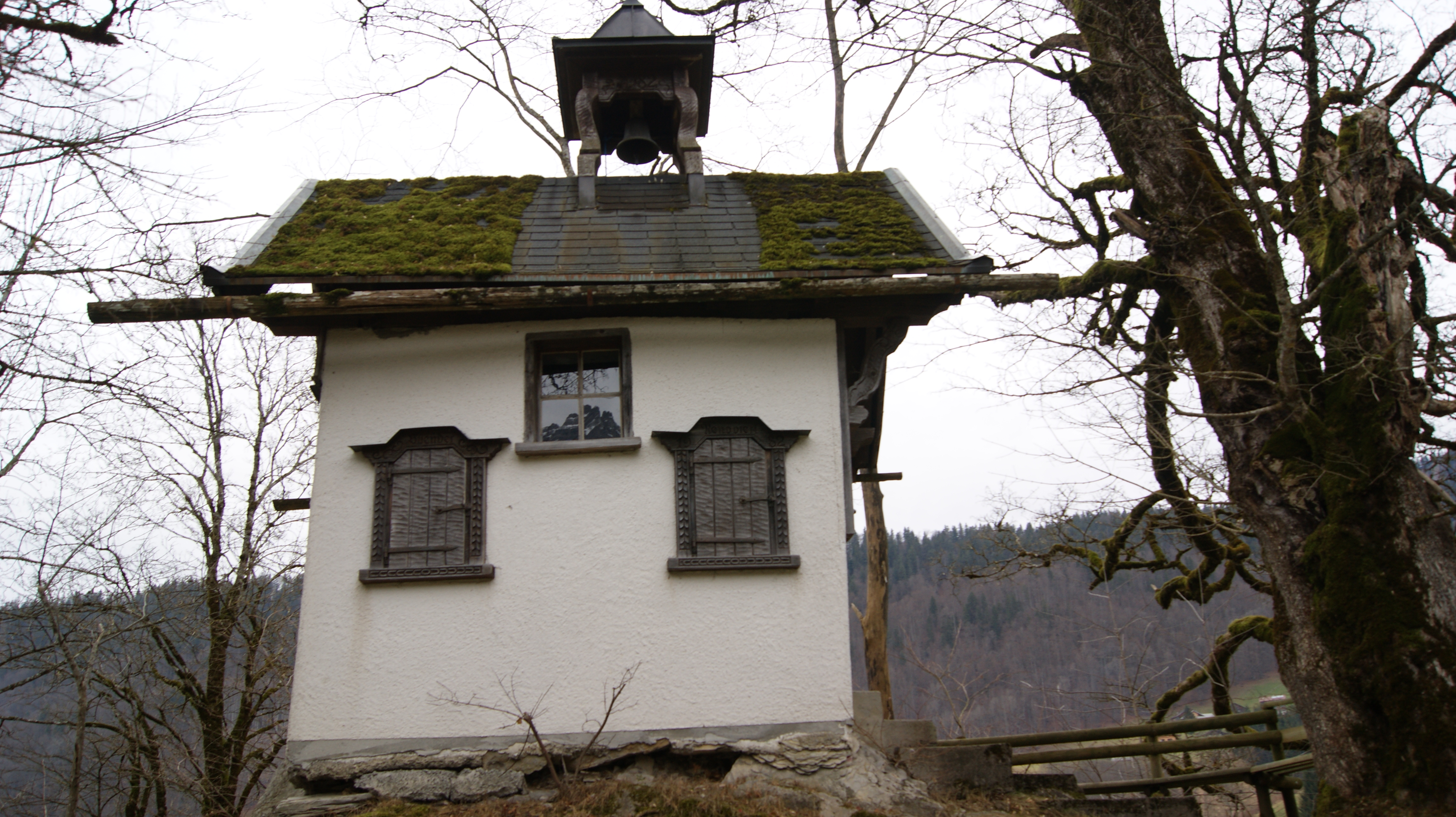 The "Bildbuehl" chapel is located in the district of "Bildbuehl" in Bizau, Vorarlberg, Austria, on an elevation of about 710 masl, and was built in the 17th century on the basis of a vow built.